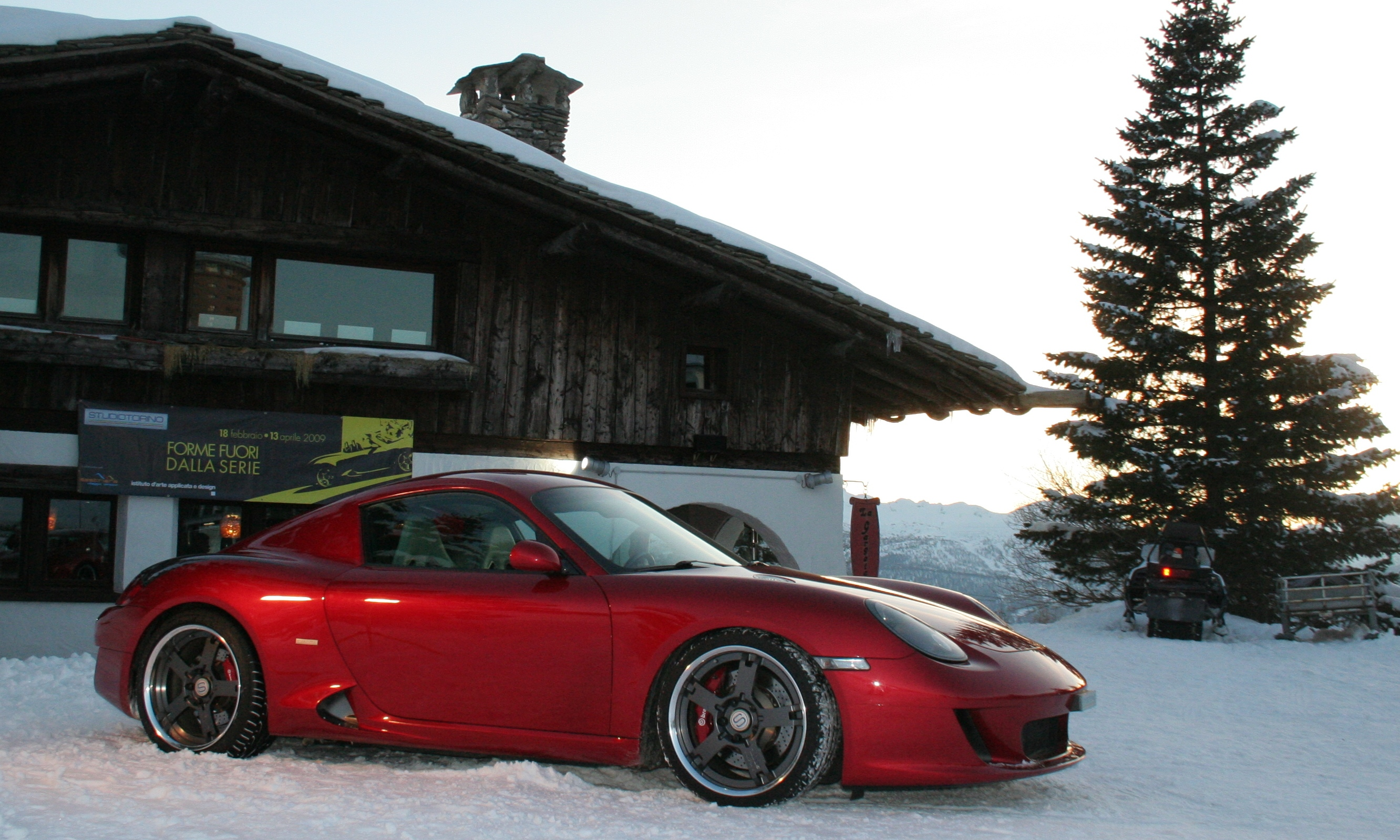 Ruf Studiotorino RK Coupè in Sestriere